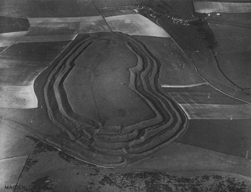 Atlas of Hillforts 3598 An aerial view of Maiden Castle in Dorset. The Ashmolean Museum's description is "Maiden Castle Iron Age hillfort taken 31 Mar 1934 (Album Ref 6, 63)".